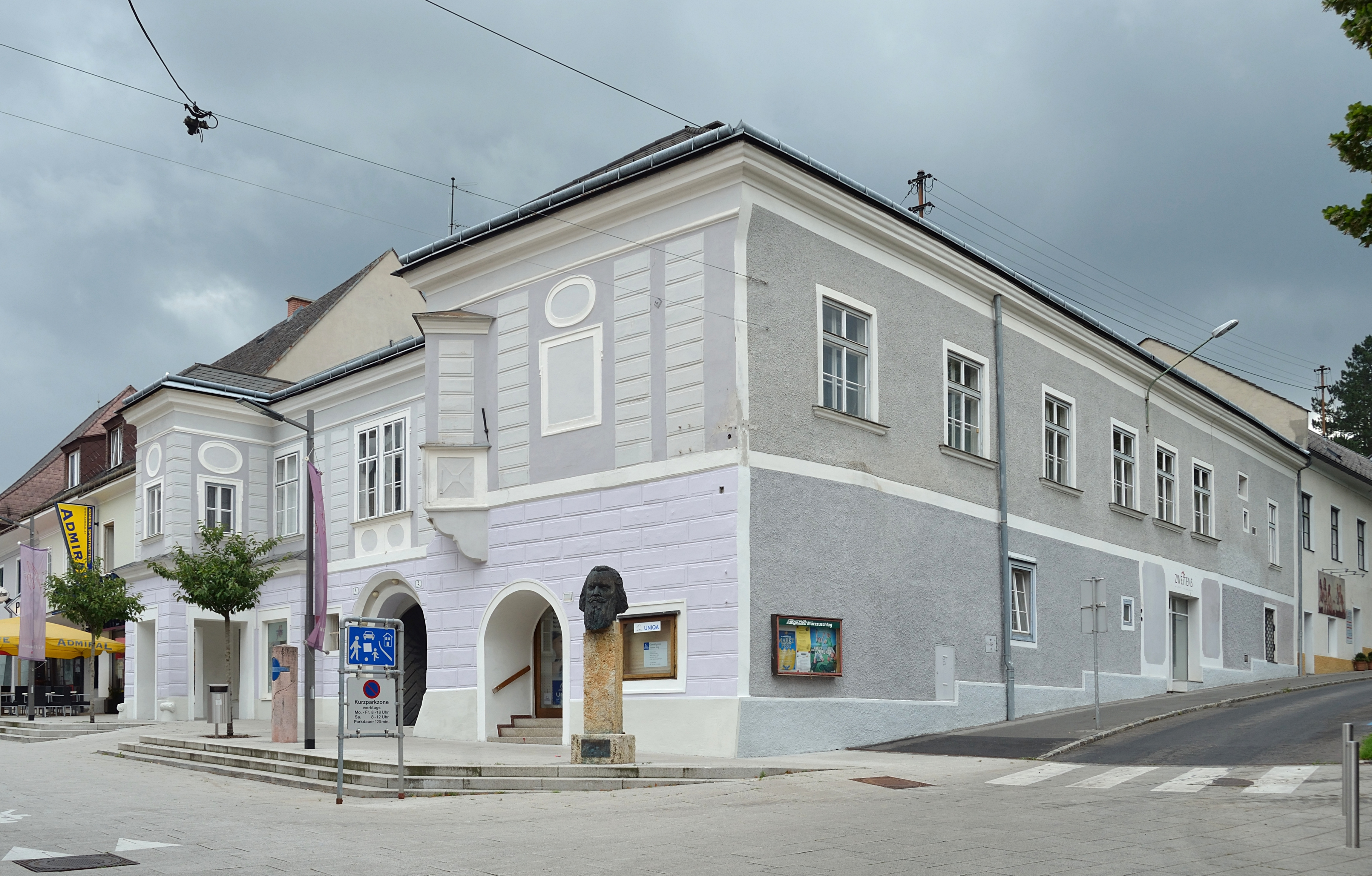 Brahms-Haus, Mürzzuschlag, Styria